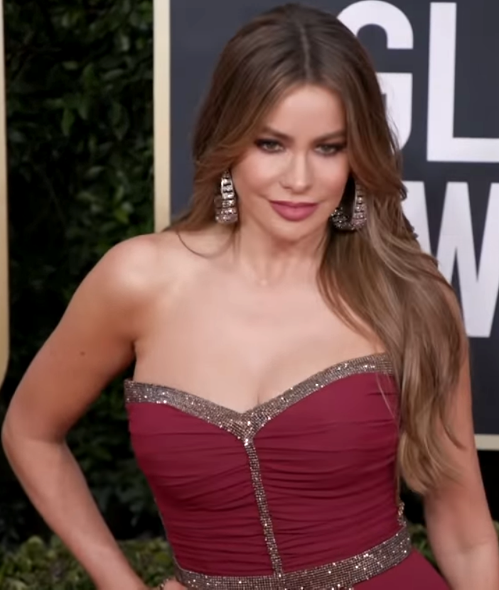 Sofia Vergara at Golden Globes Red Carpet 2020